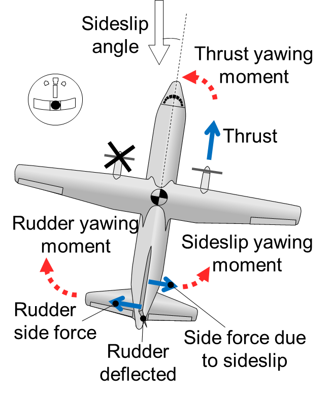 Drawing